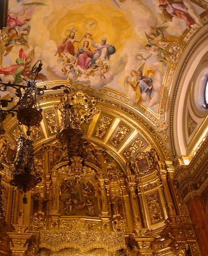 Basilica Macarena, Sevilla